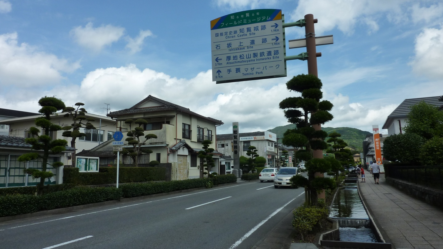 Kagoshima Prefectural Road No.23:Taniyama-Chiran Line (Samurai District, Chiran, Minamikyushu City, Kagoshima, Japan)